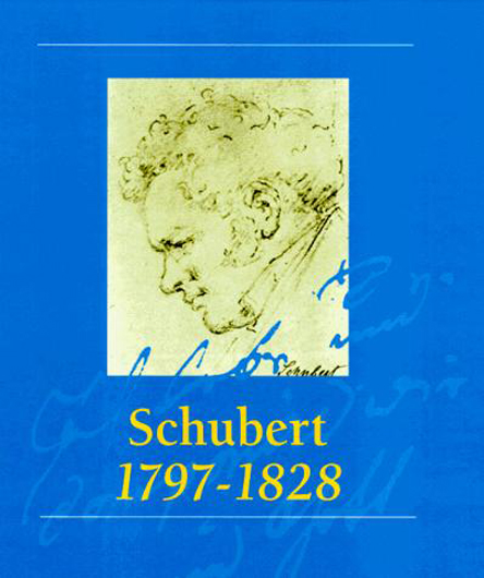 Schubertiade 1997b cover